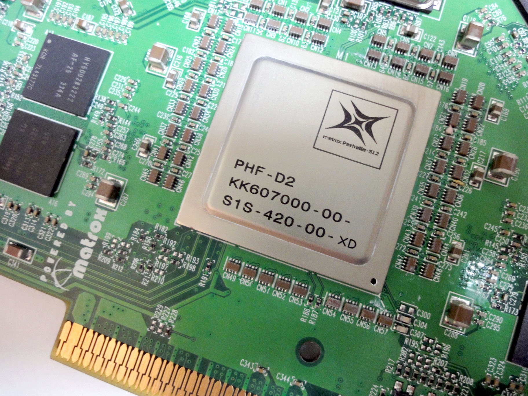 copy free.